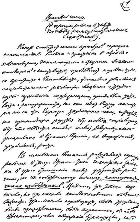 First page of Lenin's article "Velikiy pochin"